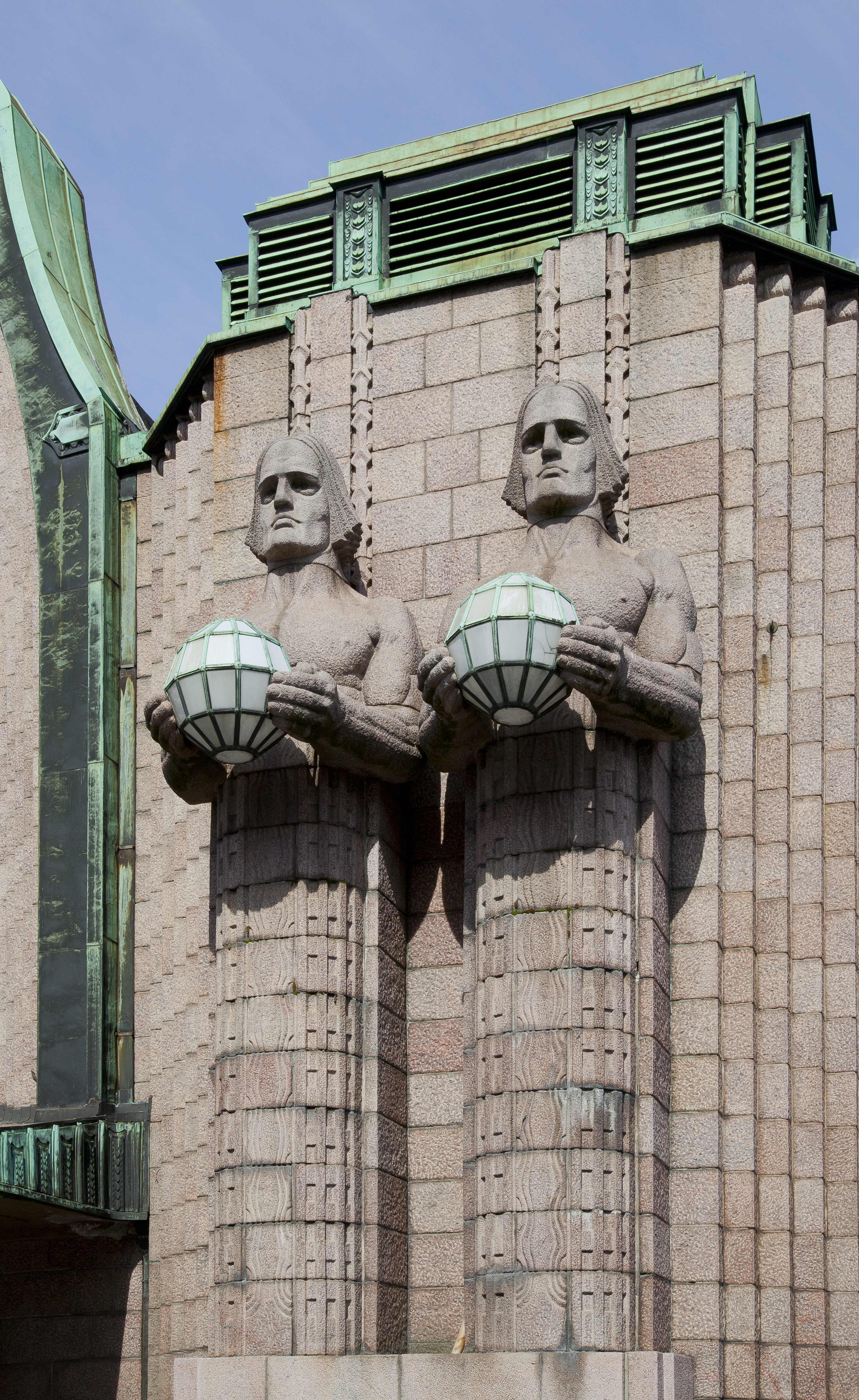 Helsinki Central railway station, Finnland